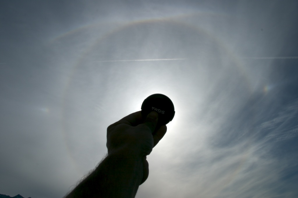 22° Halo around the Sun, upper tangent arc, with 2 parhelia (sundogs) on the parhelic circle. Seen in Hall, Tyrol, Austria.